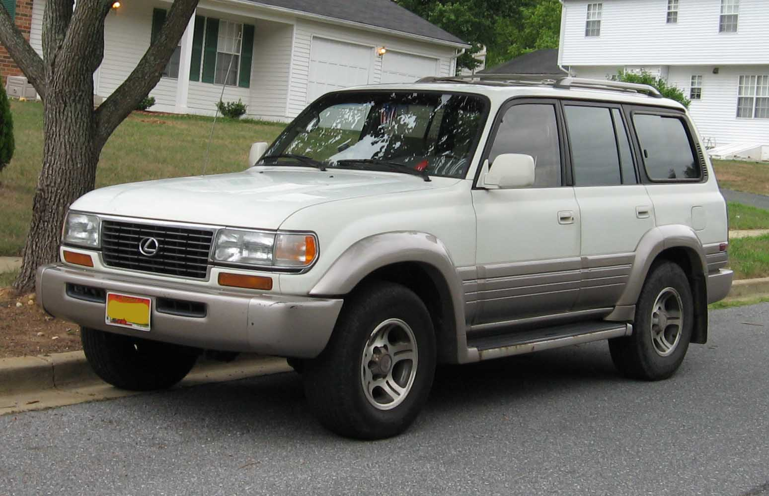 Lexus LX 450 photographed in USA.